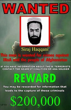 A wanted poster of warlard Sirajuddin "Siraj" Haqqani (alias "Khalifa") depicting a composit sketch of the man and text urging his capture in exchange for reward. The bounty on Haqqani has grown greatly since the this original poster was published.